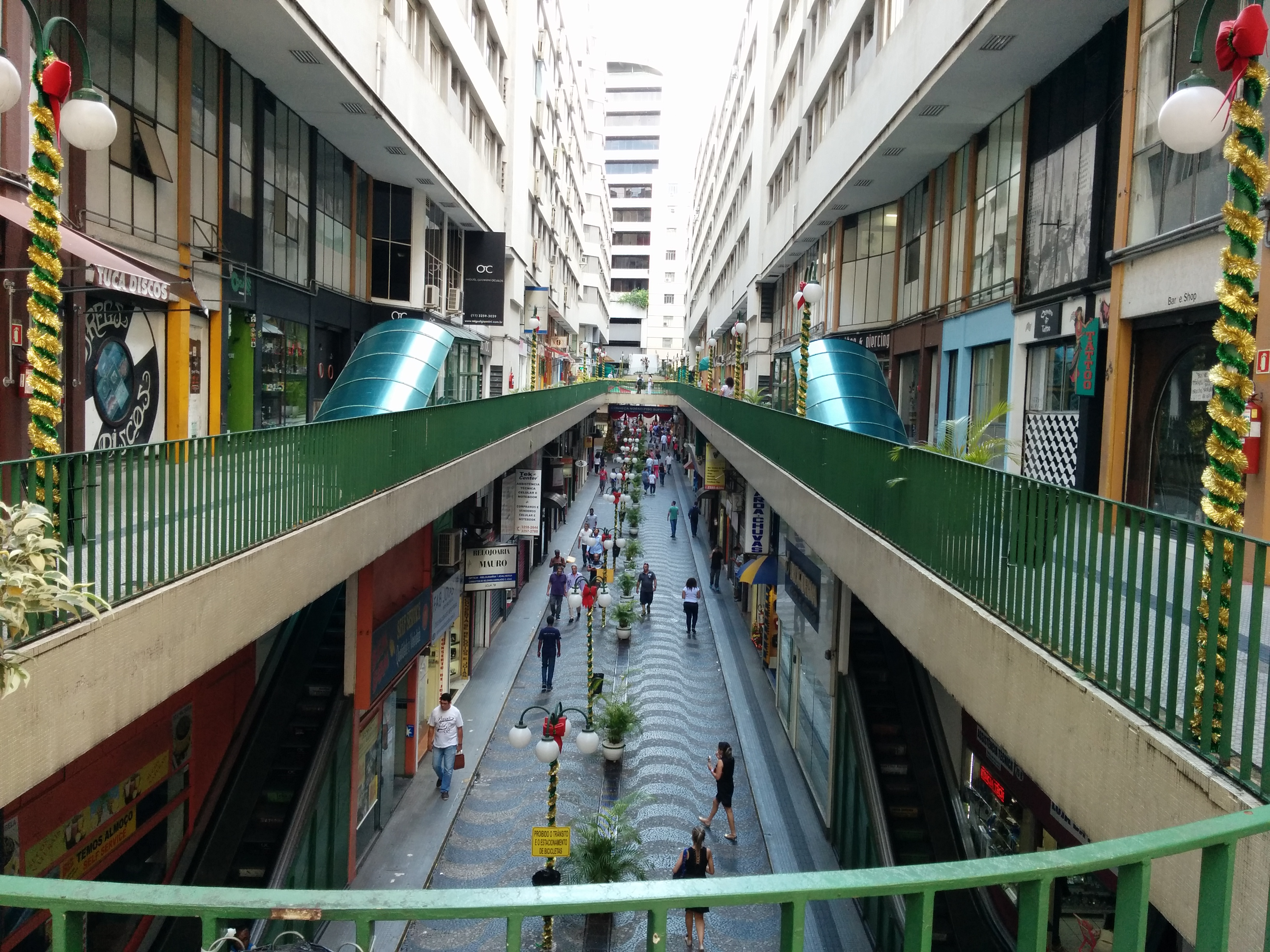 Many small businesses in a street at São Paulo, Central Zone.